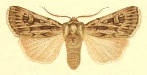 Image from Plate 5 of Die Gross-Schmetterlinge der Erde (The Macrolepidoptera of the World) Vol. 3